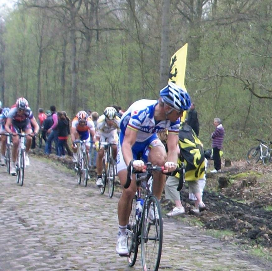 Tom Boonen in the Trouée d'Arenberg (2009).